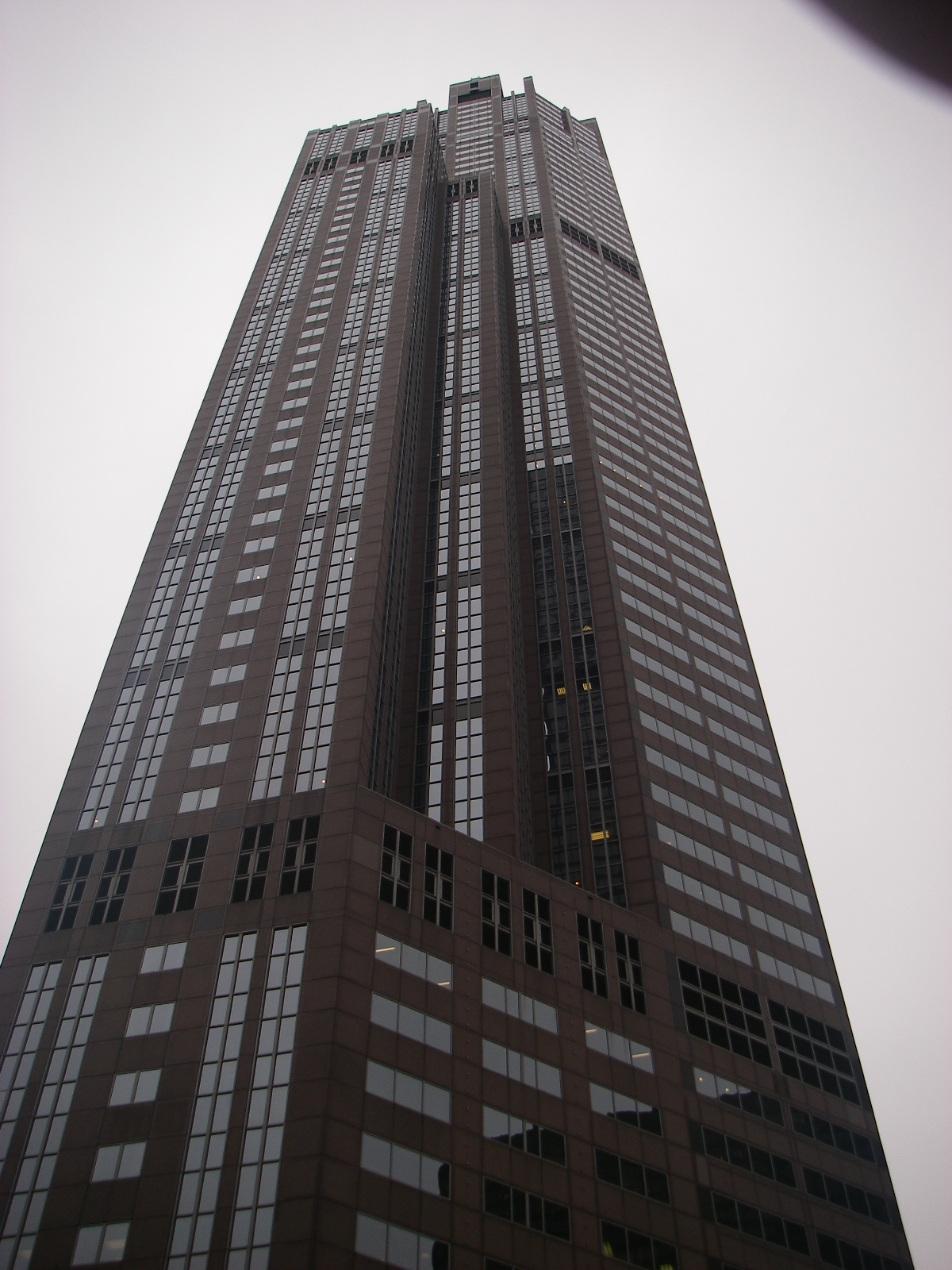 311 South Wacker Drive viewed from W.Jackson Blvd (at the Willis (Siers) Tower entrance)